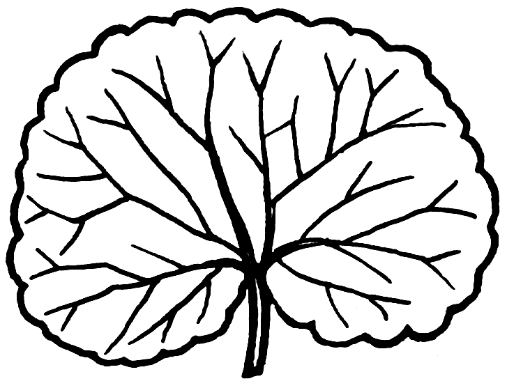 Crenate